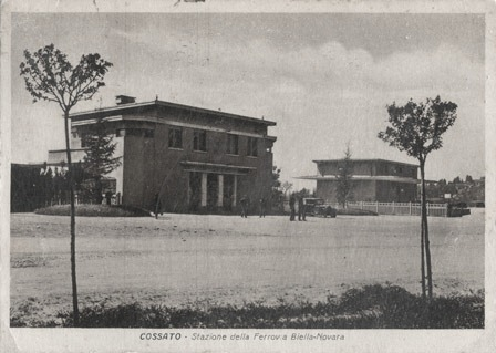 Cossato, SFBN railway station